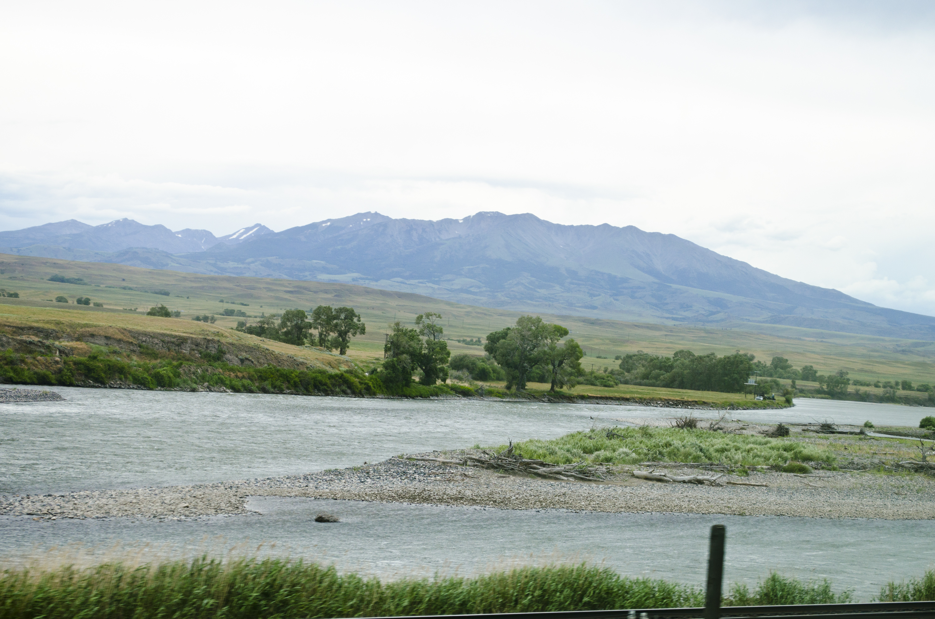 The Yellowstone River, as seen from Interstate 90 near Grey Bear, east of Livingston, Montana. The railroad tracks belong to the Burlington Northern and Santa Fe (BNSF) Railway. The Crazy Mountains can be seen in the background, to the north.